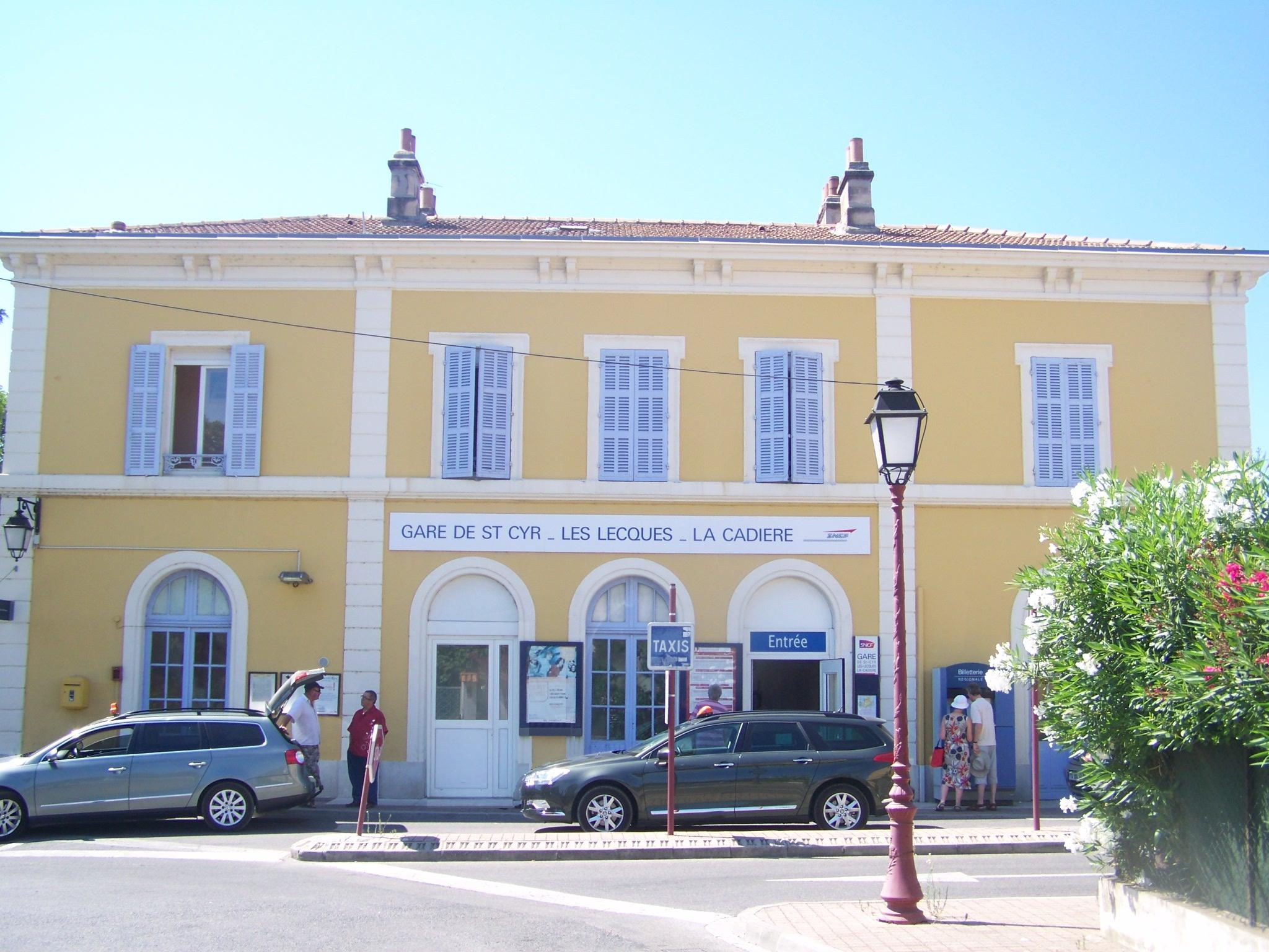 Entrance of little railway station of St-Cyr-sur-Mer in Var, France.